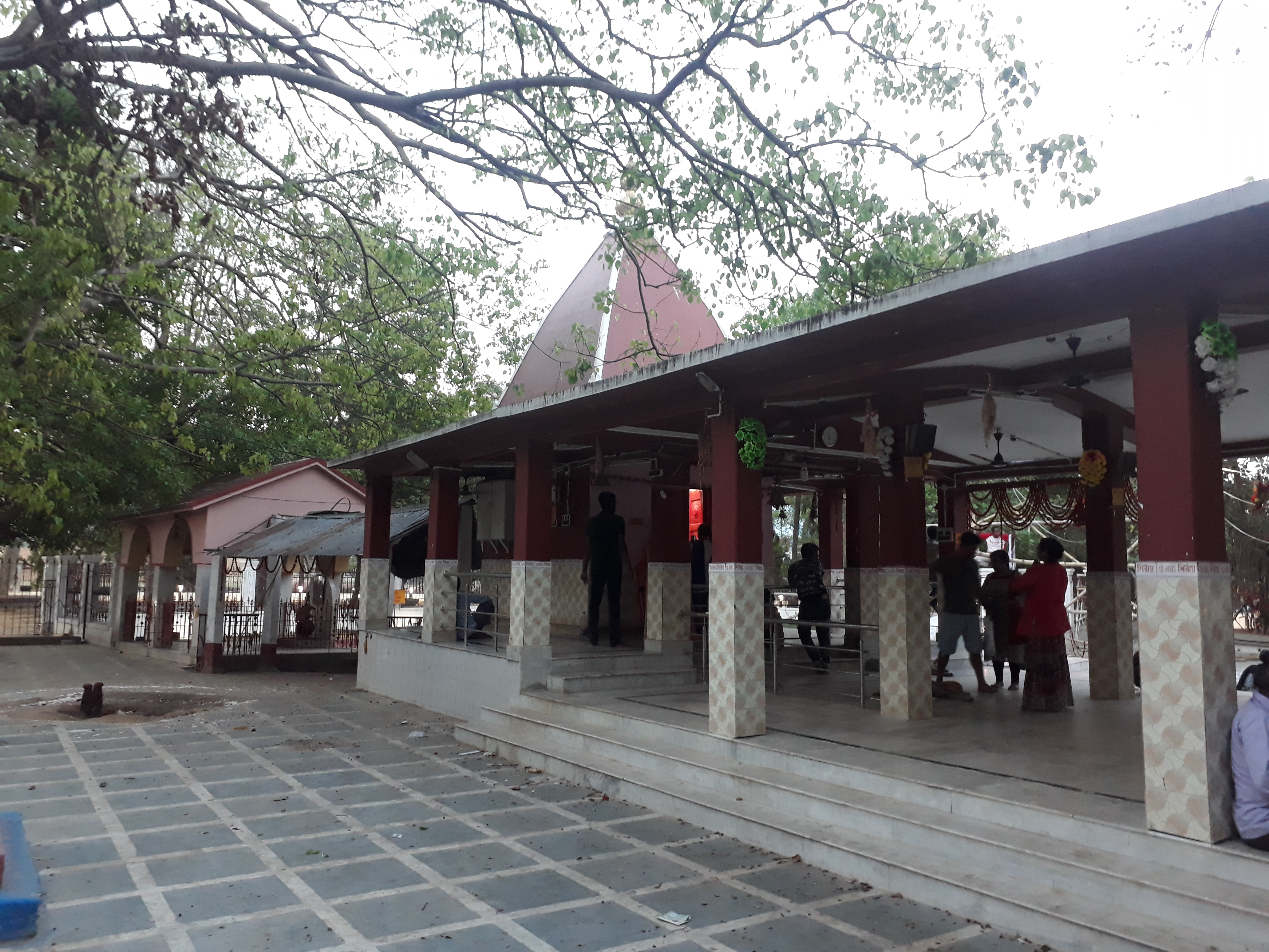 Kankalitala Temple, a Shakti Pitha or Sati Pitha in Birbhum, West Bengal